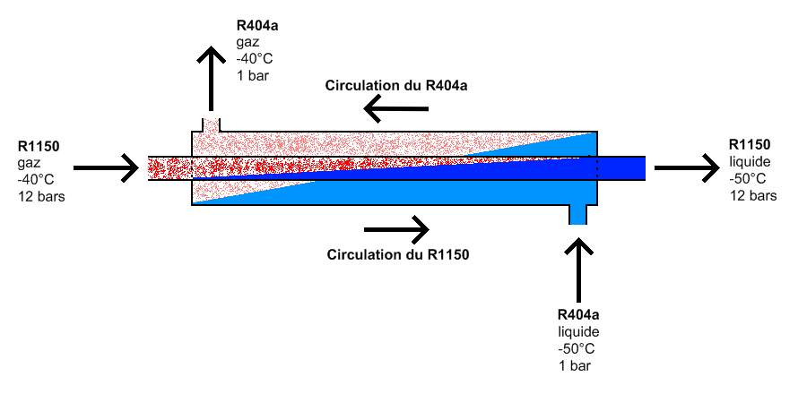 Functioning of Heat eXchanger.